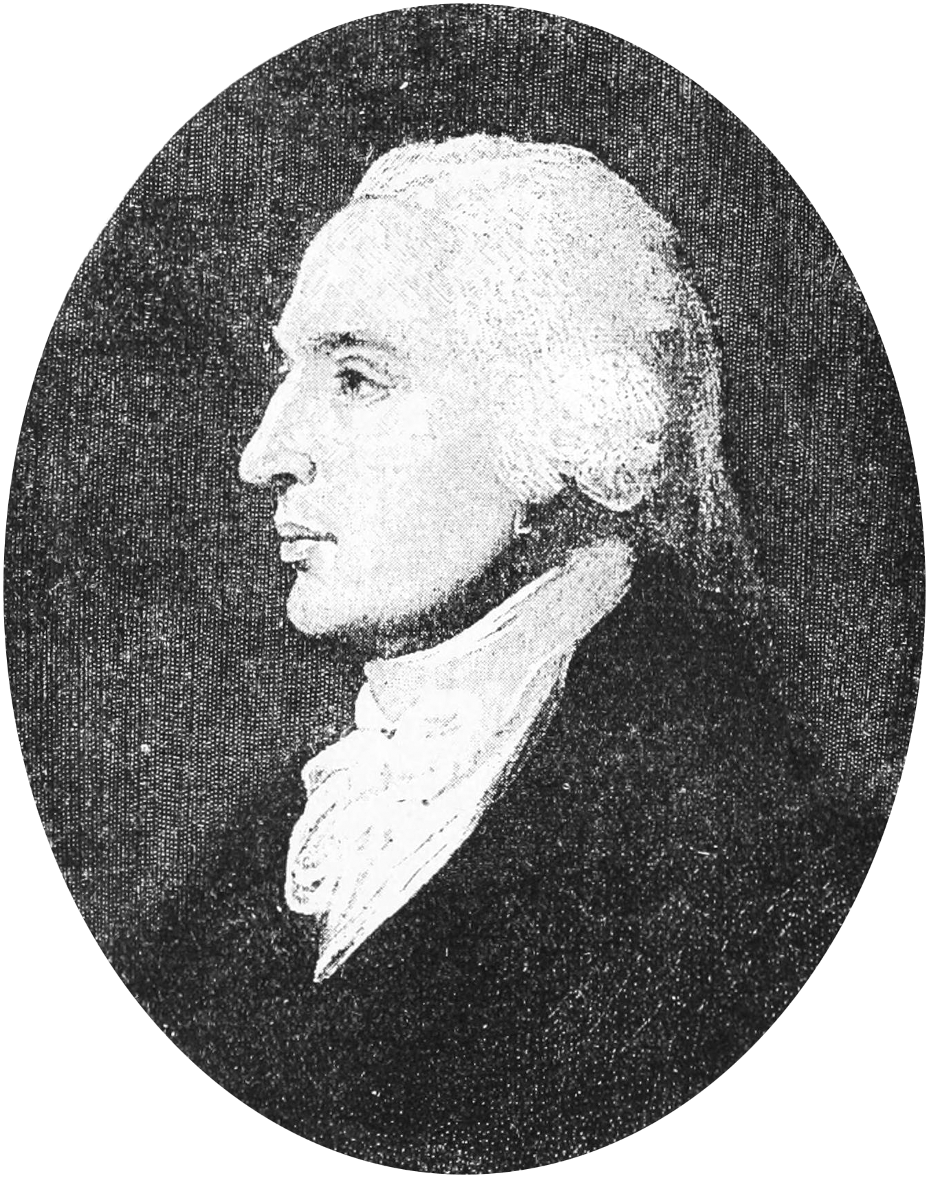 Captain James Wilson (1760–1814), brought the first British missionaries of the London Missionary Society to Tahiti on ship Duff in 1797.